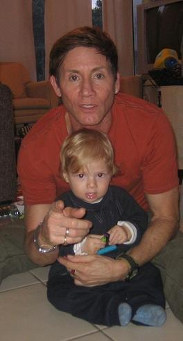 Israeli dancer David Dvir